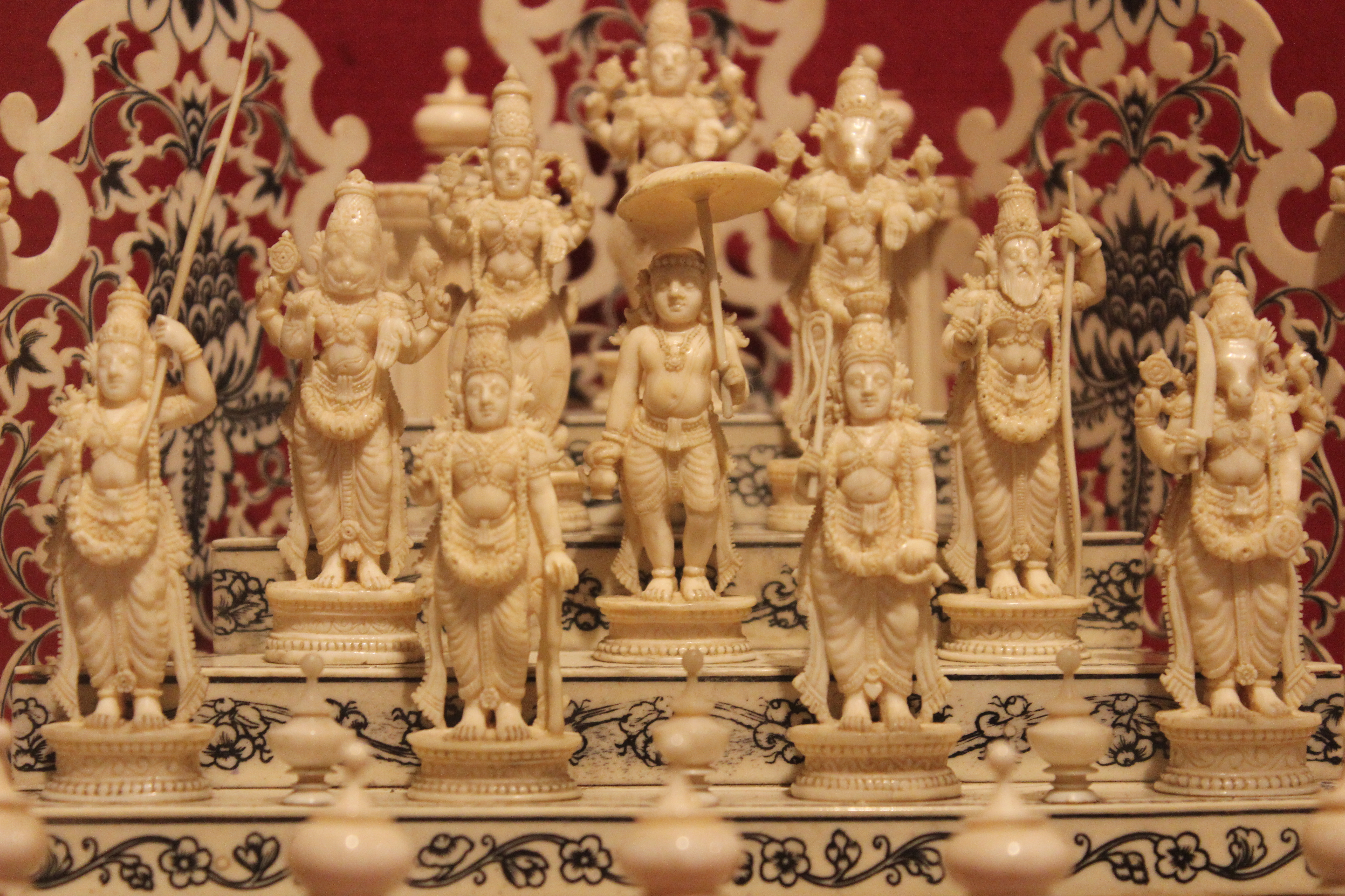 A close up of the dashavtar pieces made in ivory